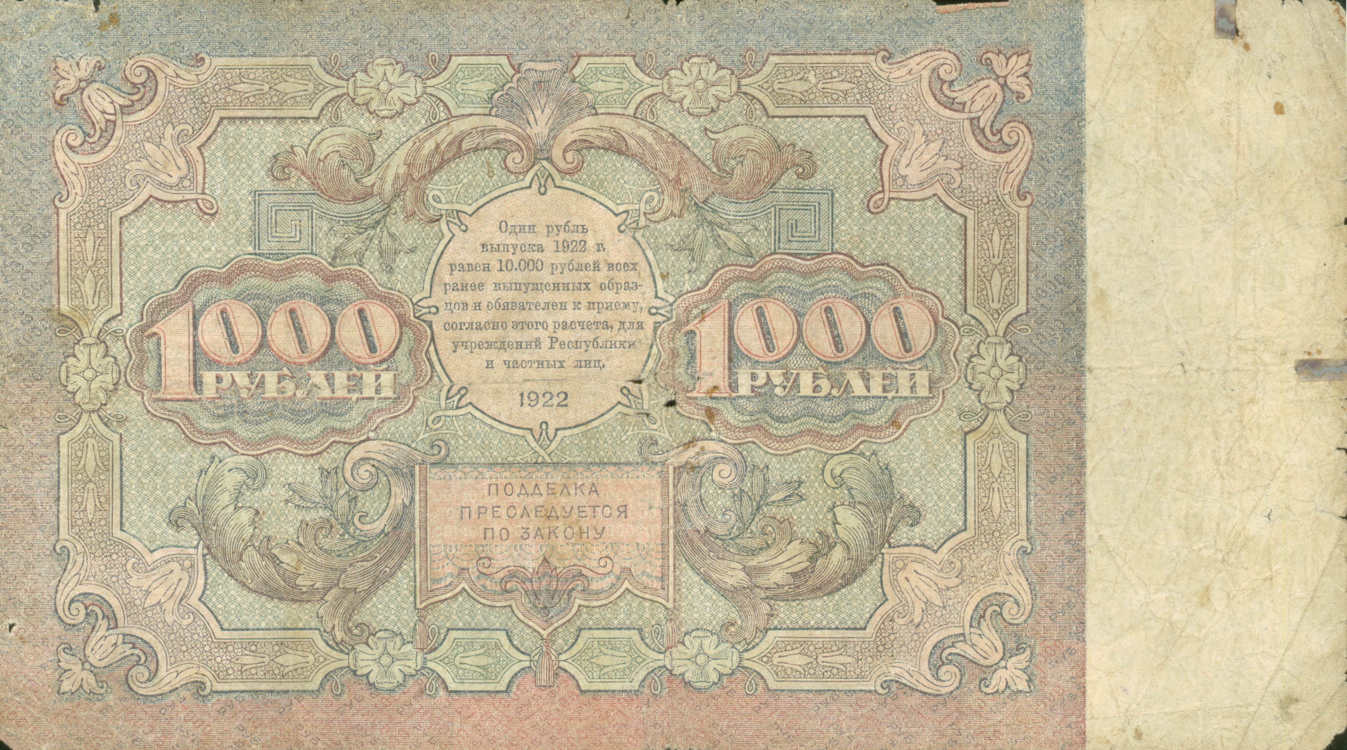 Soviet money bill, 1922 See also other side Image:1000roubles1922b.jpg